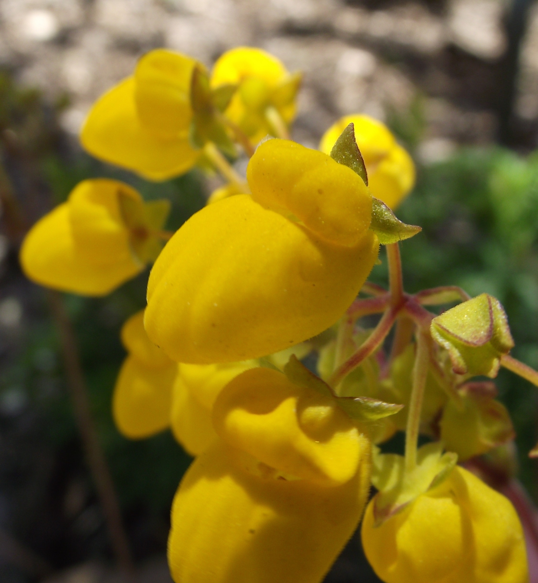 Calceolaria salicifolia in the UC Botanical Garden, Berkeley, California, USA. Identified by sign.